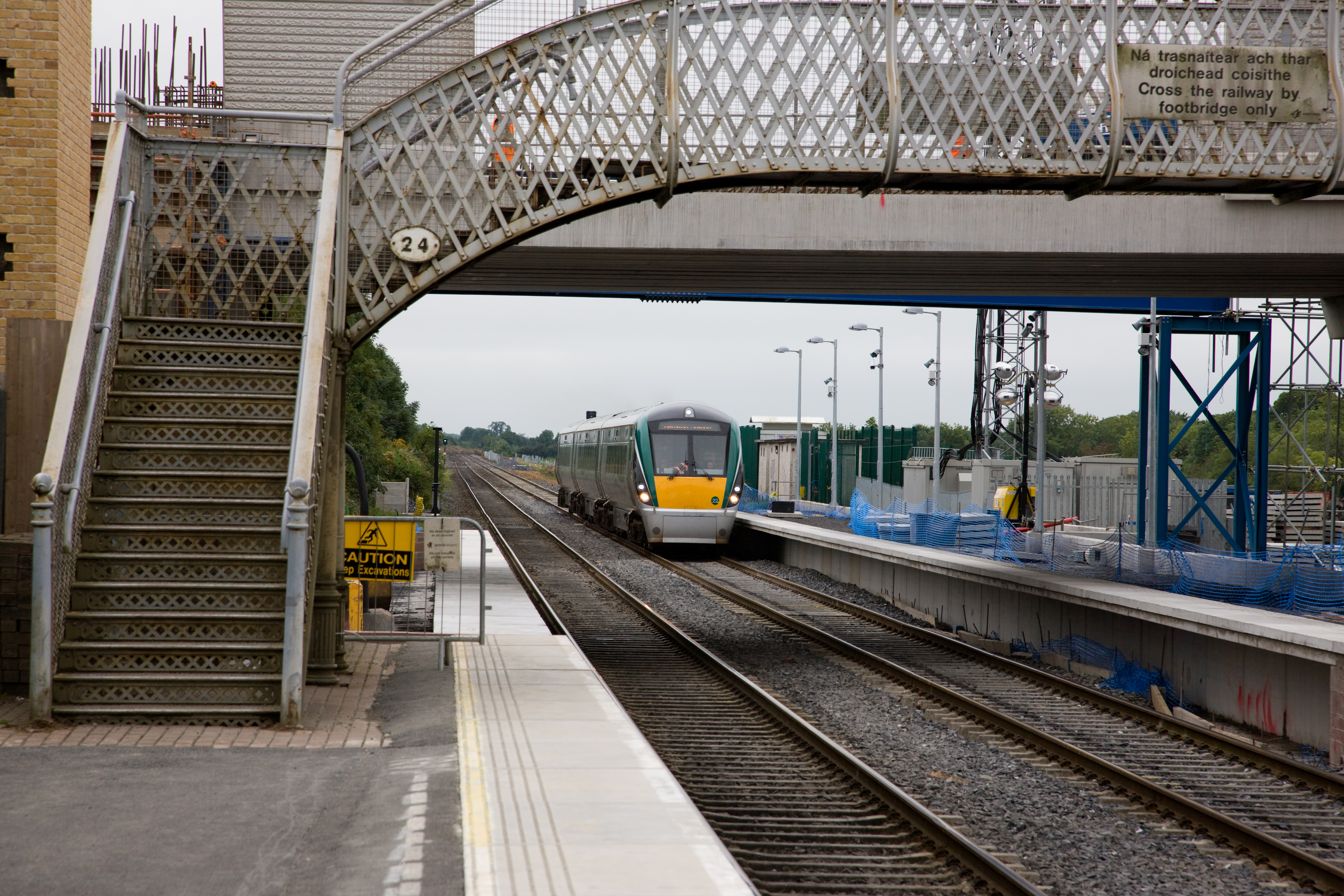 IÉ 22000 Class diesel multiple unit approaching Adamstown railway station, Dublin, Ireland